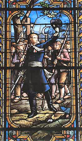 Stained glass window representing general Henri de La Rochejaquelein in Sainte-Madeleine Church of Angers, Maine-et-Loire, Pays de la Loire, France.